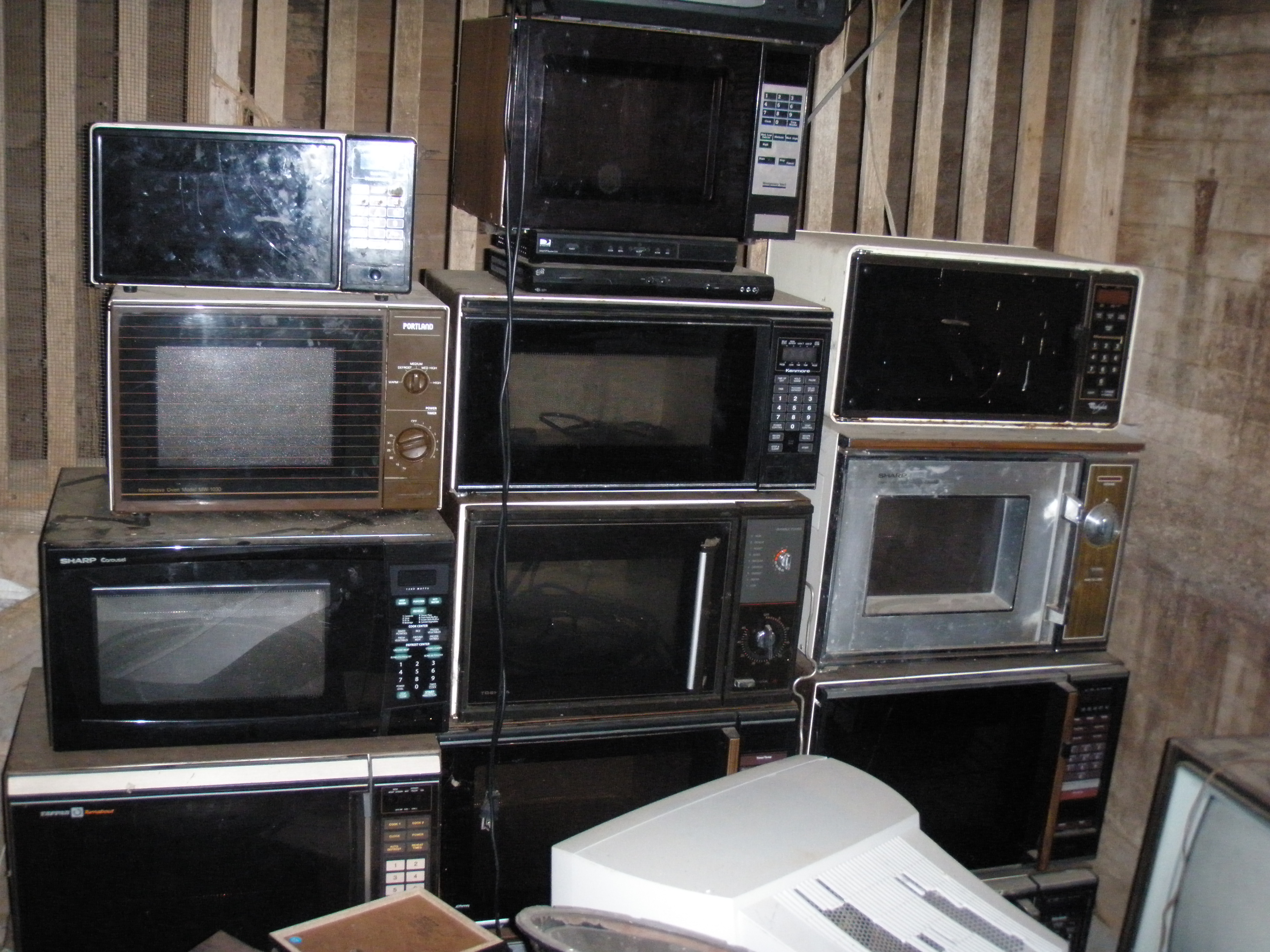 wall of microwaves